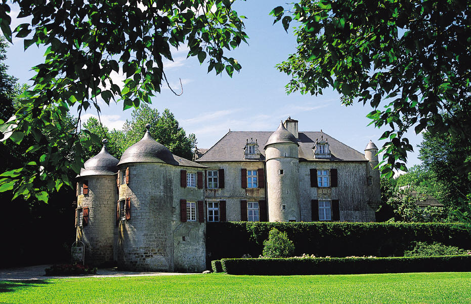 Castle